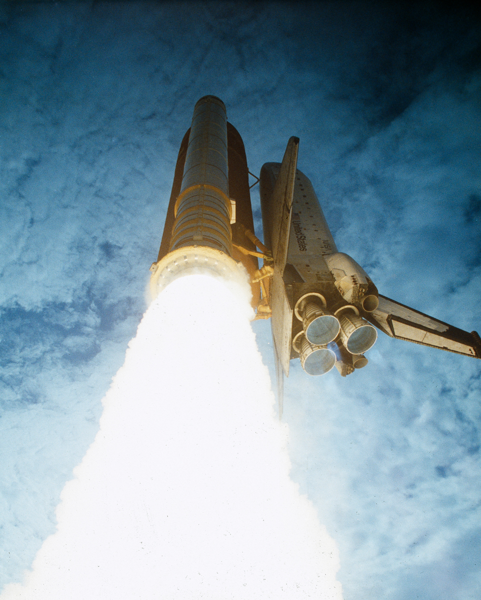 STS-40 Columbia launch from below